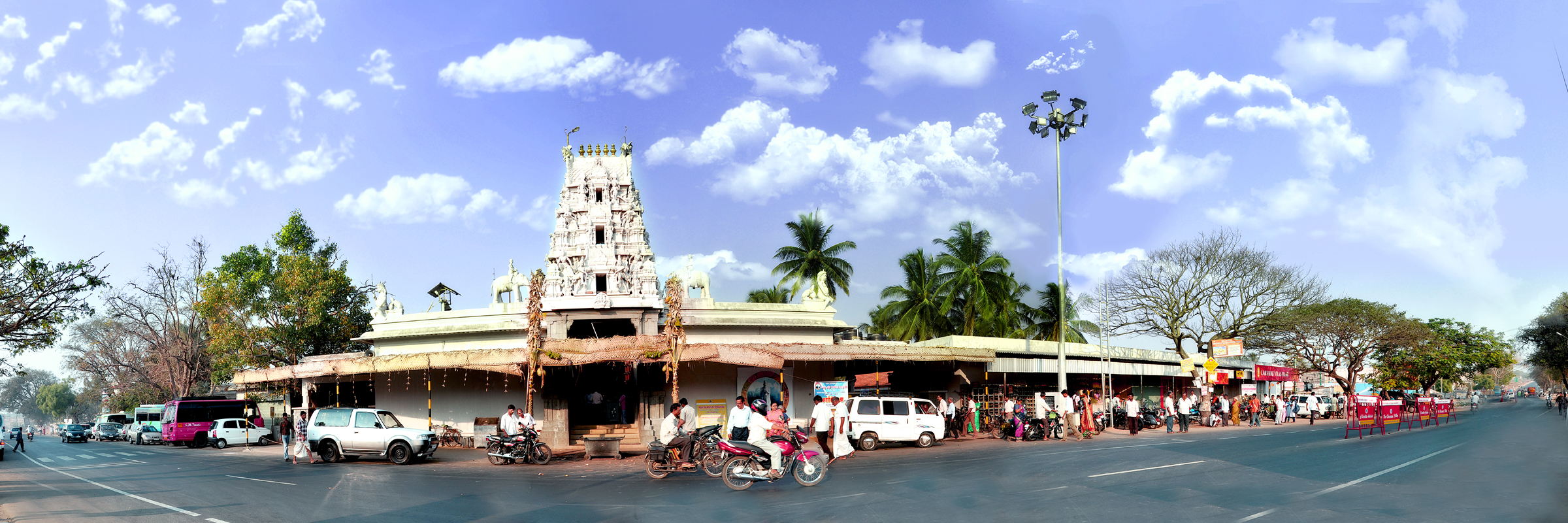 This photo was taken 18.03.2010